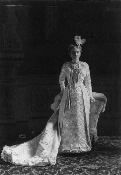 Ida McKinley, First Lady of the United States from 1897 to 1901, during the presidential tenure of her husband, President William McKinley